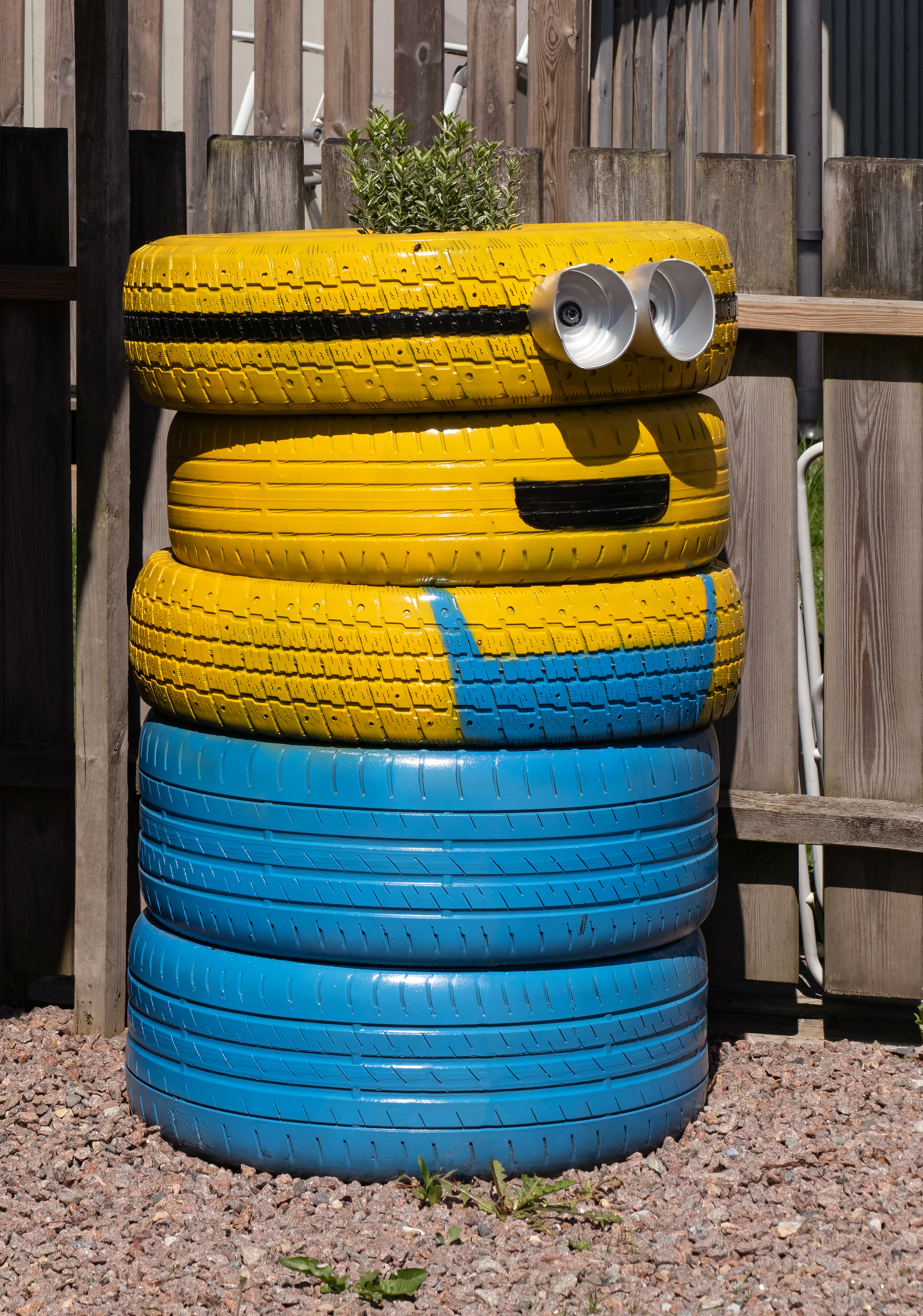 Recycled tires in the form of a minion, garden art in Brodalen, Lysekil Municipality, Sweden.